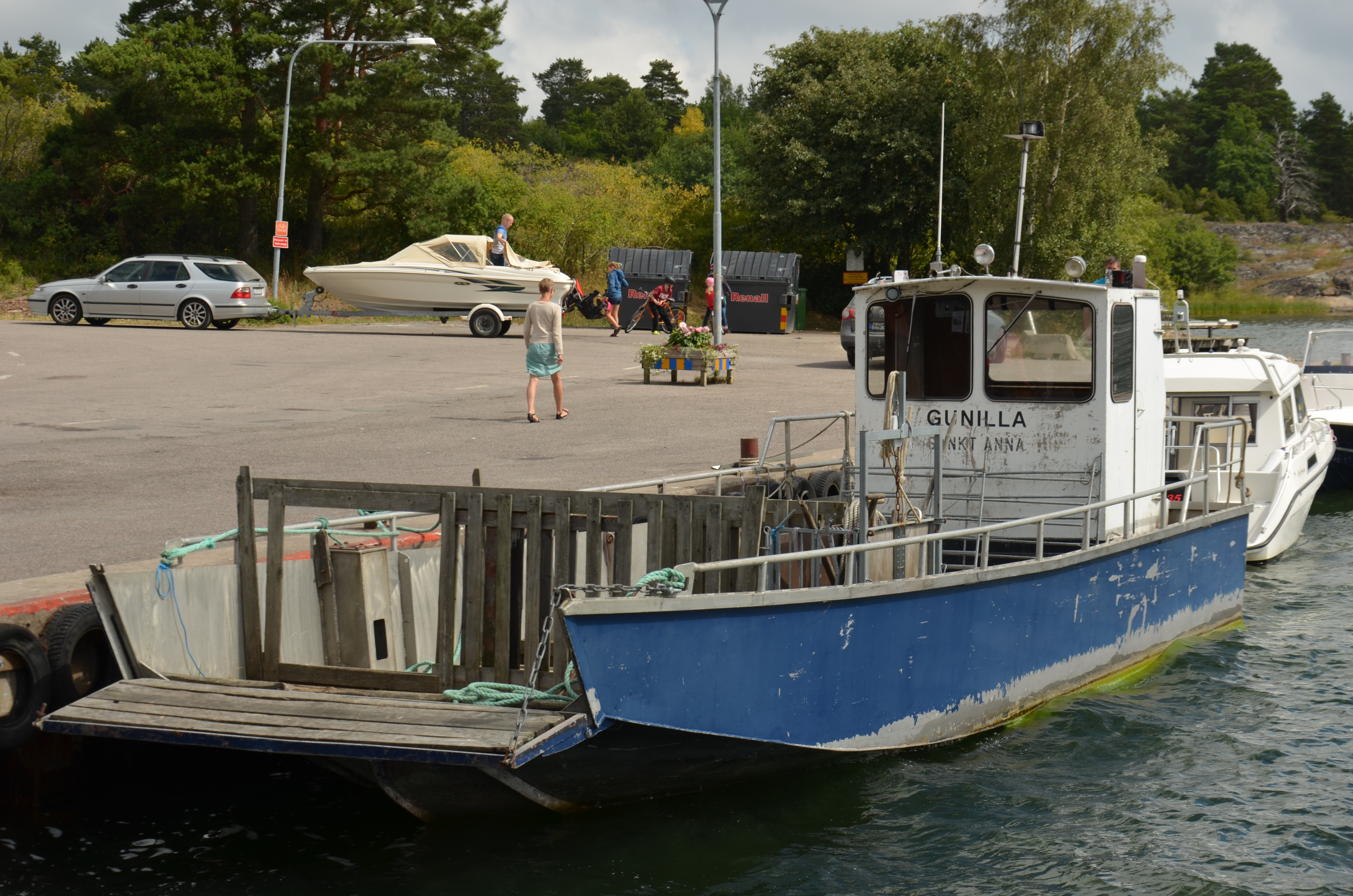 Cattle ferry Gunilla in Tyrislöt harbour, Sankt Anna archipelago, Söderkping Municipality, Sweden